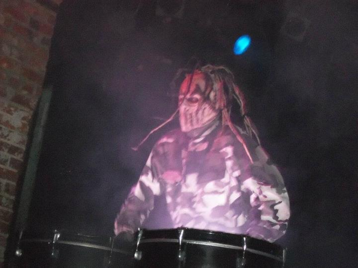 Skinny on water drums at Thompson House in Newport, KY